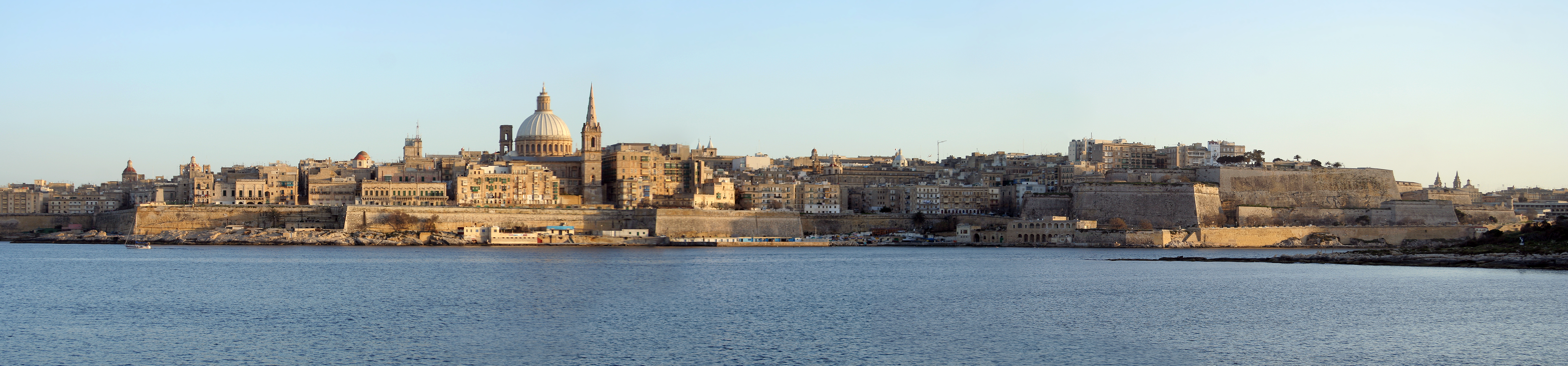 Malta, Valletta, northern coast, view from Sliema